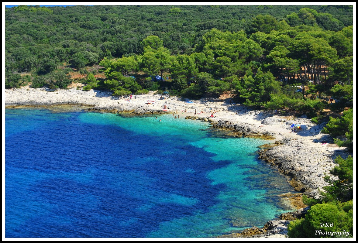 Dugi otok